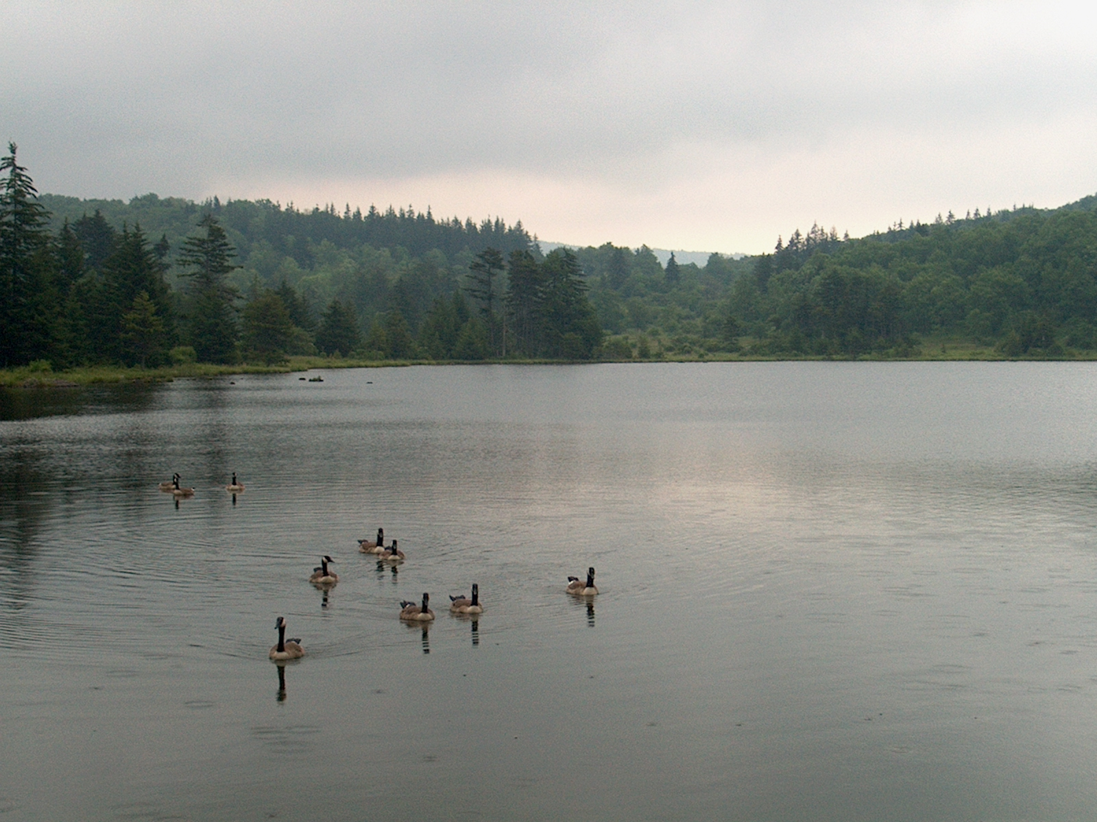 Canada geese (Branta canadensis) in Spruce Knob Lake, Randolph County, West Virginia.